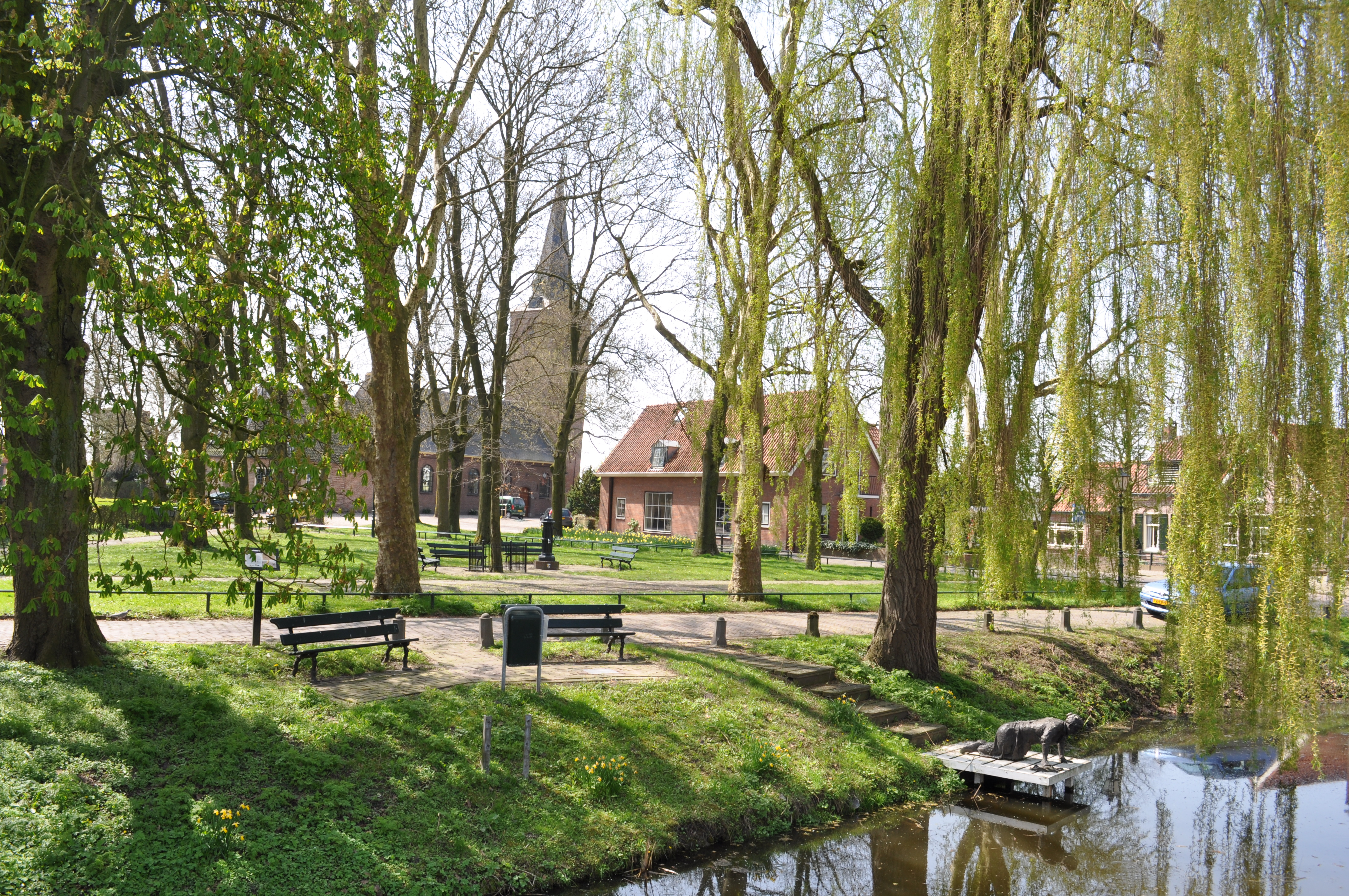 The Brink in Schalkwijk. In the background the Dutch reformed Church and the Museum Dijkmagazijn de Heul. Near the water you can see the sculpture "De Wasvrouw" (Laundress) by Roel Visser in 1998. Placed at the Brink in Schalkwijk (Houten).